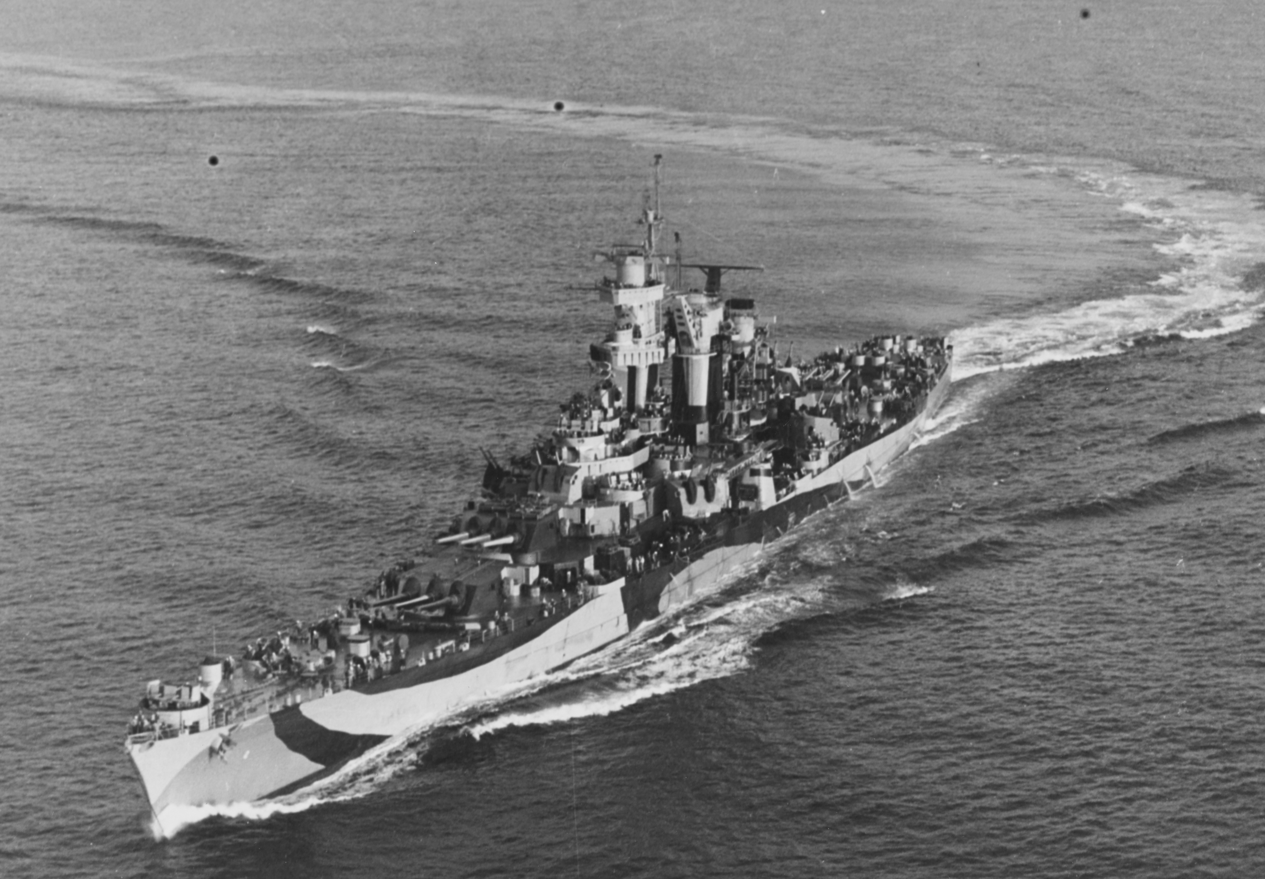 The U.S. Navy large cruiser USS Guam (CB-2) coming out of a turn, circa 1944. She is painted in Camouflage Measure 32, Design 7C.